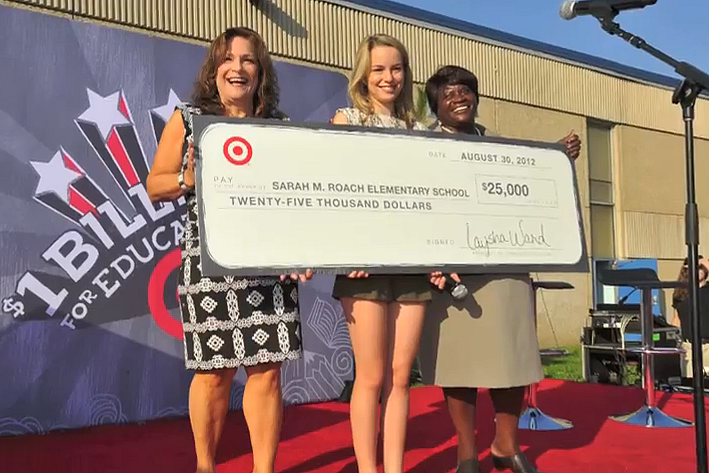 American actress Bridgit Mendler surprised an elementary school in Baltimore, MD, with $20,000 for Target's campaign 'Give WithTarget'